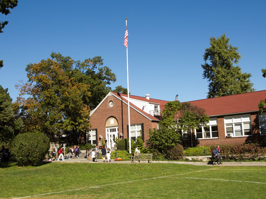 Mow Hall on the Hill Campus, October 2016, Photo courtesy of Riverdale Country School